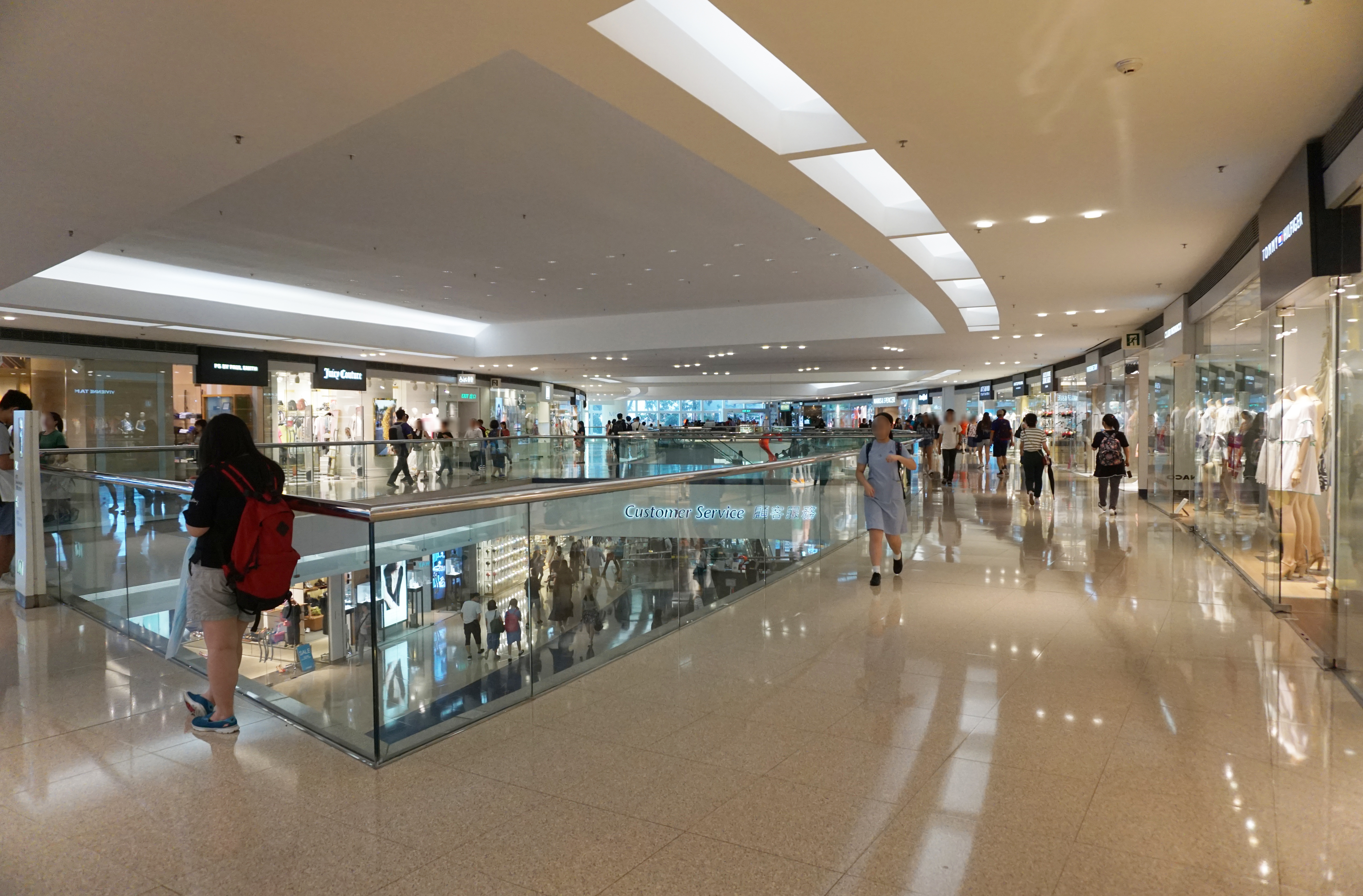 Festival Walk in Kowloon Tong, Hong Kong.